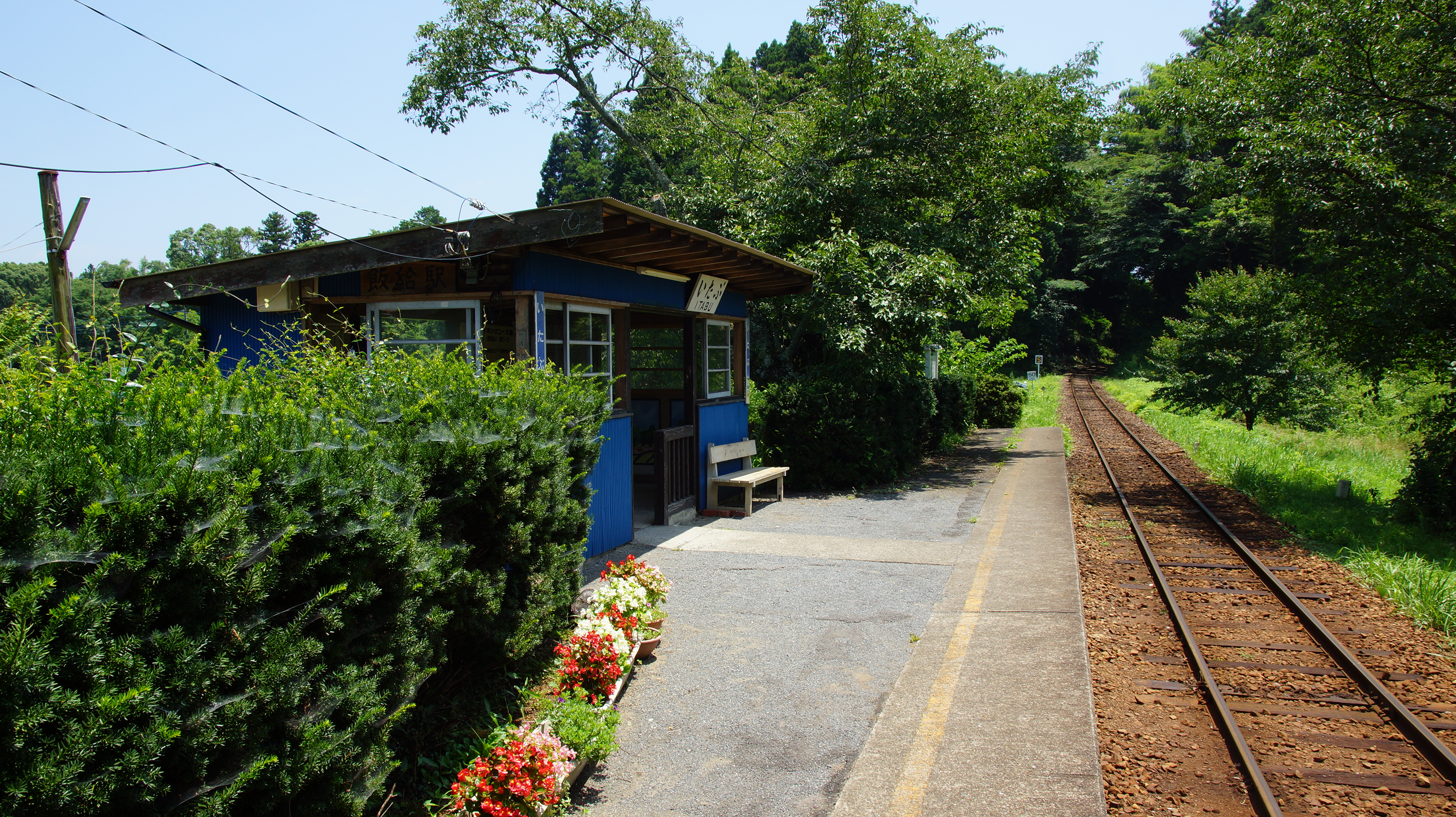 The platform at Itabu Station on the Kominato Railway in Chiba Prefecture, Japan, looking south